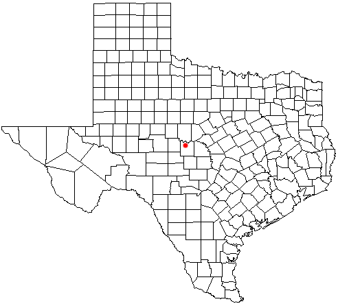 Lohn, Texas location map; created with the GIMP. Made by User:Acntx.